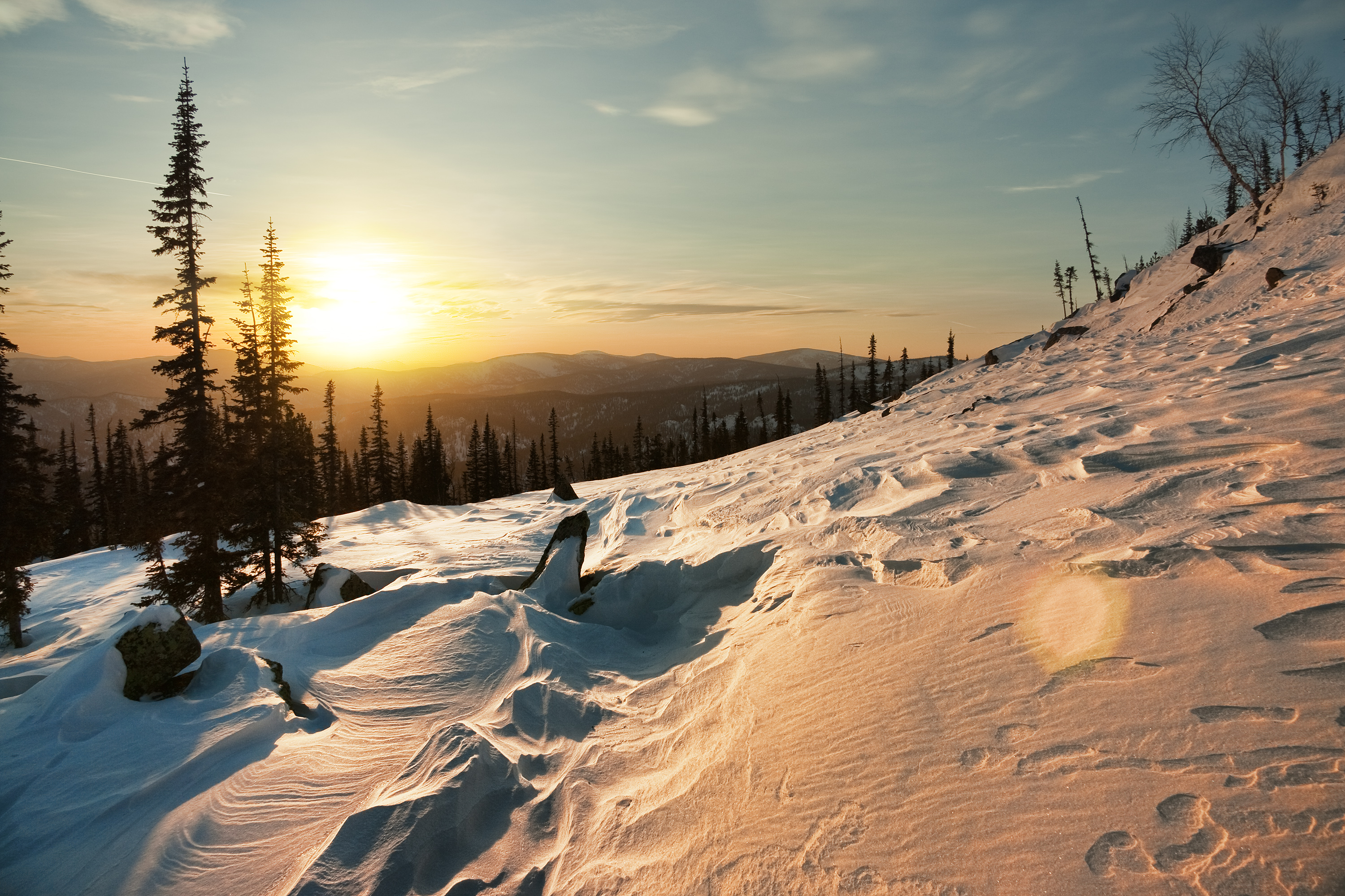 Sunset in Kuznetsk Alatau